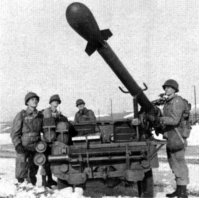 U.S. Army soldiers with an M28/M29 Davy Crockett tactical nuclear recoilless rifle, circa 1961. The rifle is mounted on a jeep and equipped with the M388 nuclear projectile.